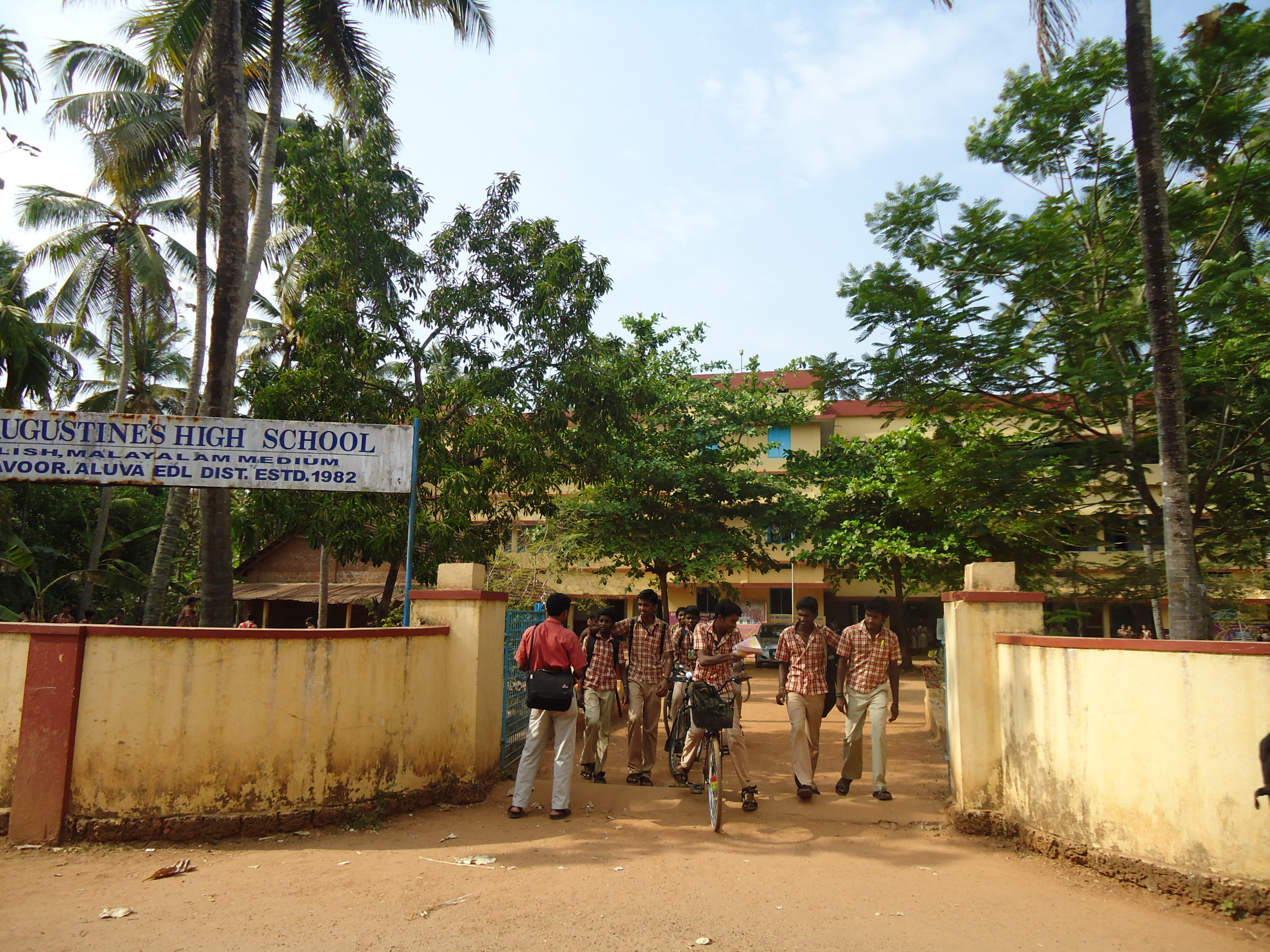 Mar Augustines High School Thuravoor Entrance